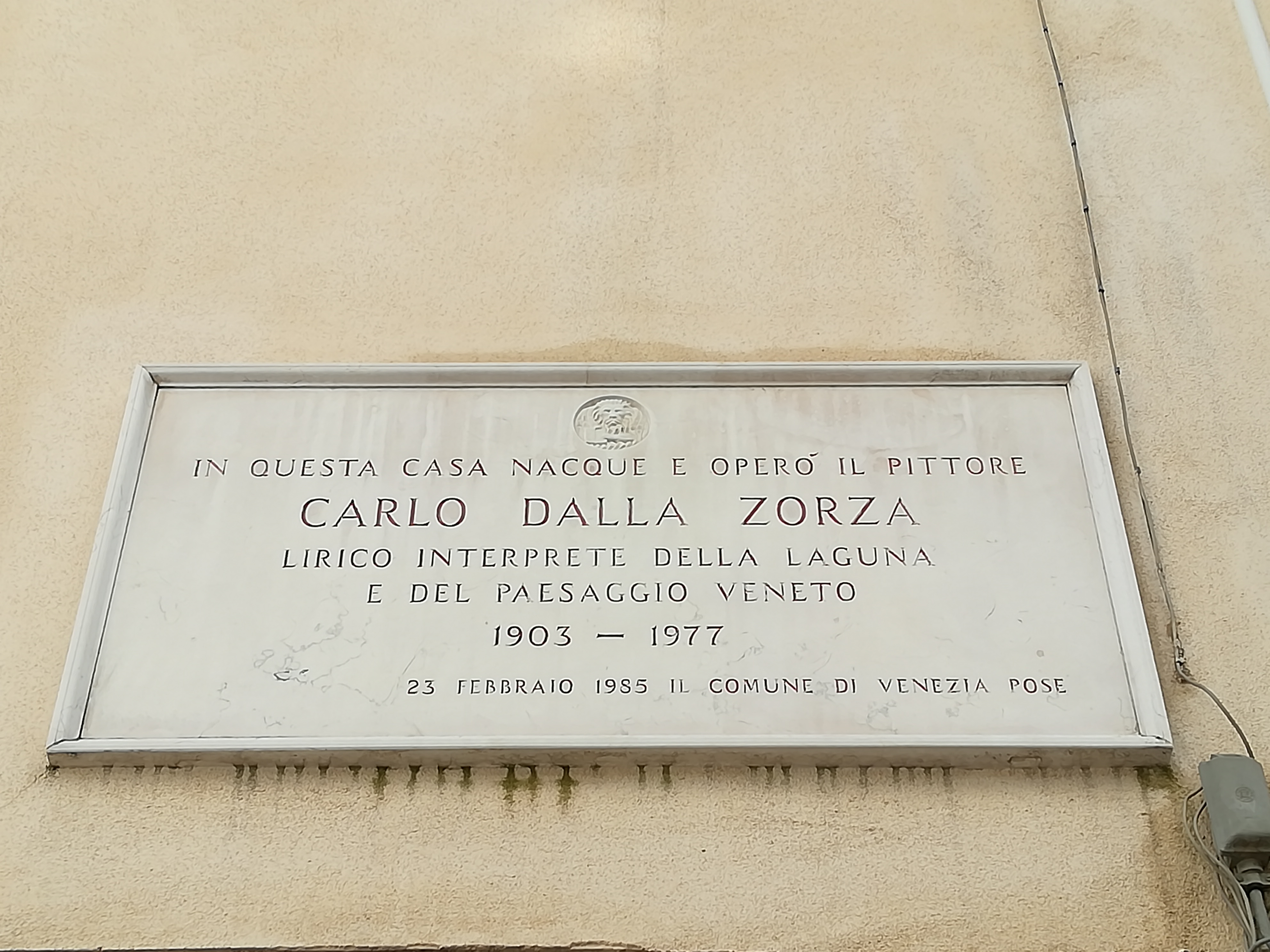 Plaque in memory of Carlo Dalla Zorza.